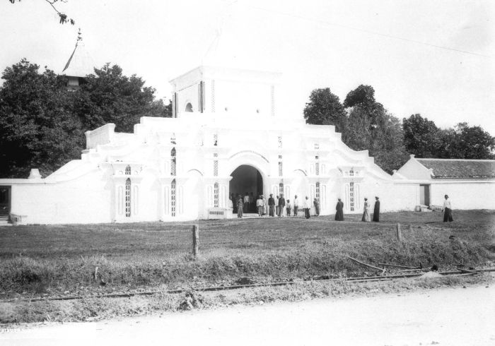 Mosque